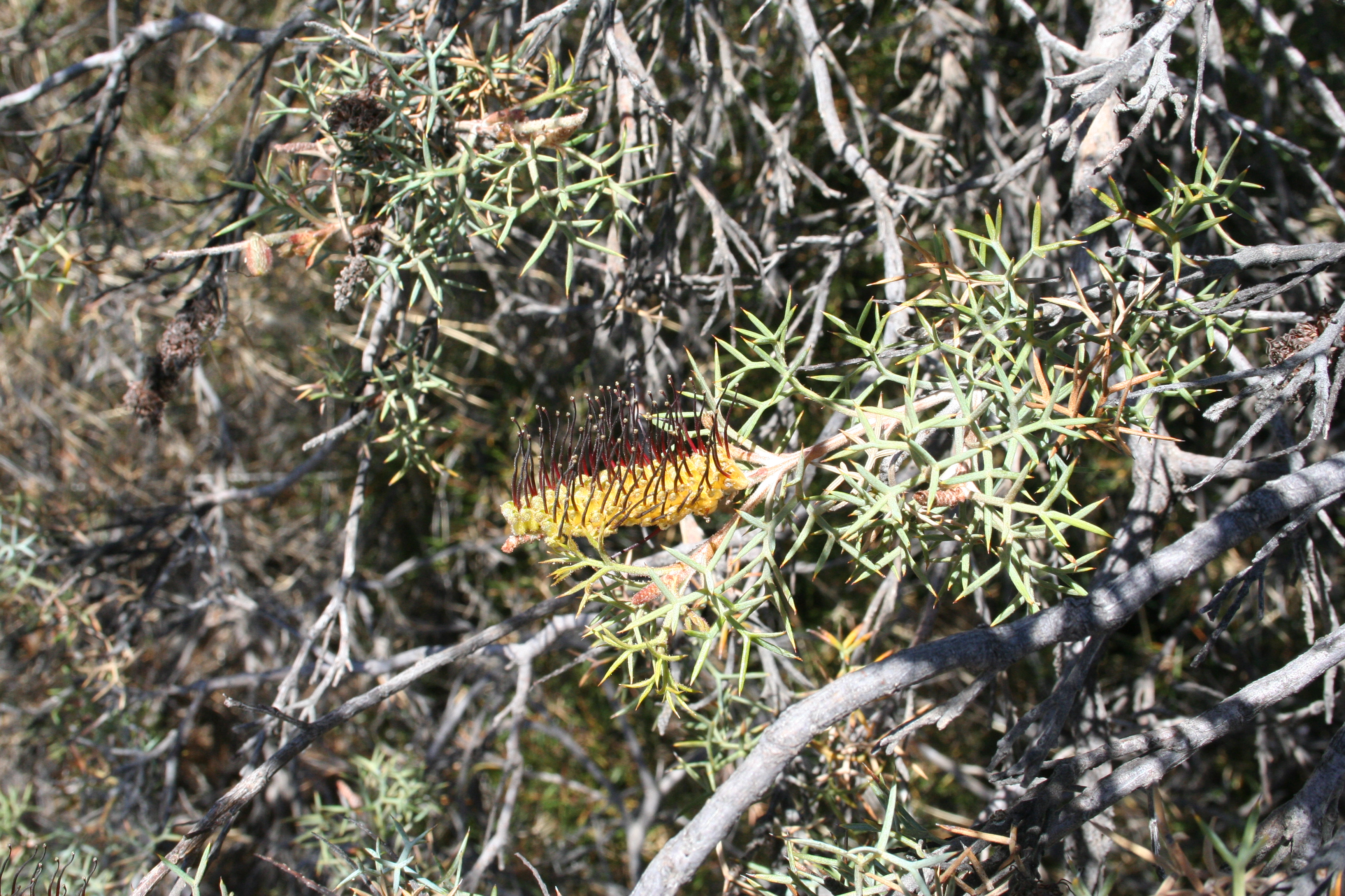 Grevillea armigera - northern wheatbelt, I'd guess about 300 km NNE of Perth (were on our way to see Banksia benthamiana and stopped off by the roadside